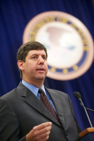 U.S. Attorney Steve Dettelbach, Chair of the Attorney General's Advisory Committee, Civil Rights Subcommittee reiterates the efforts of the U.S. Attorneys to enforce the ADA in 2012